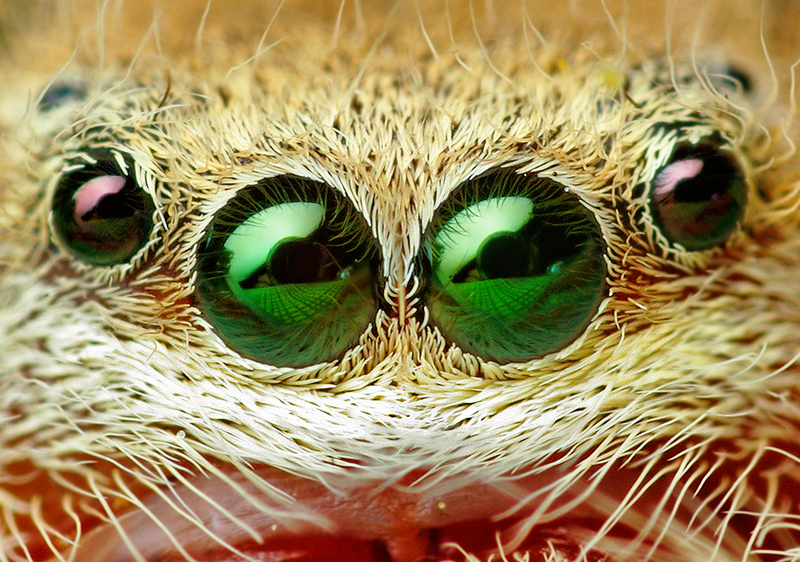 Anterior median and lateral eyes of an adult female Phidippus pius female jumping spider found in Oklahoma.